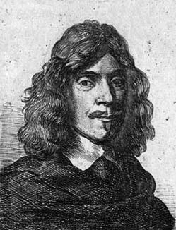 John Greaves (1602-1652). Engraving by Edward Mascall (1650).